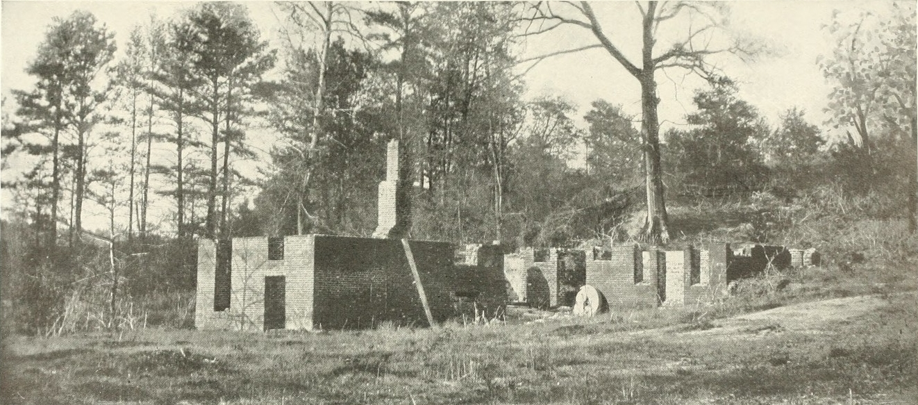 The ruin known as Gaine's Mill, part of the Seven Days' Battles.